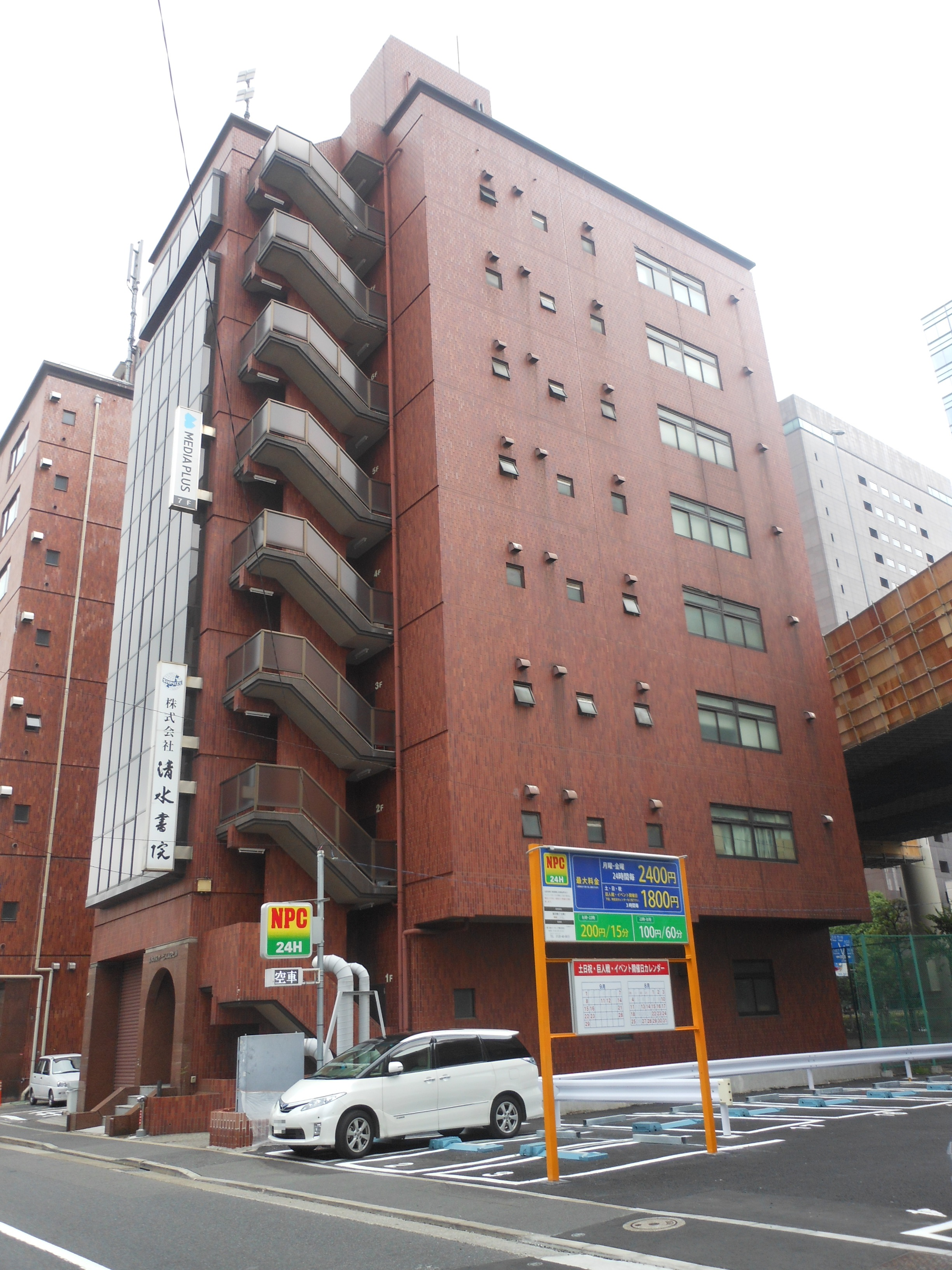 This is a Japanese publisher "Shimizu Shoin", which is in Iidabashi, Chiyoda, Tokyo, Japan.